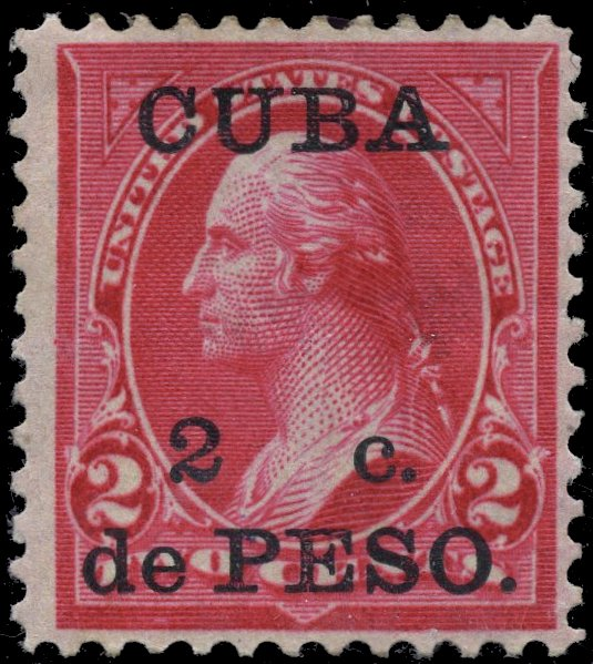 Provisional overprint stamp for occupied Cuba, 1899. Two cent US George Washington overprinted for use as 2 centavos.